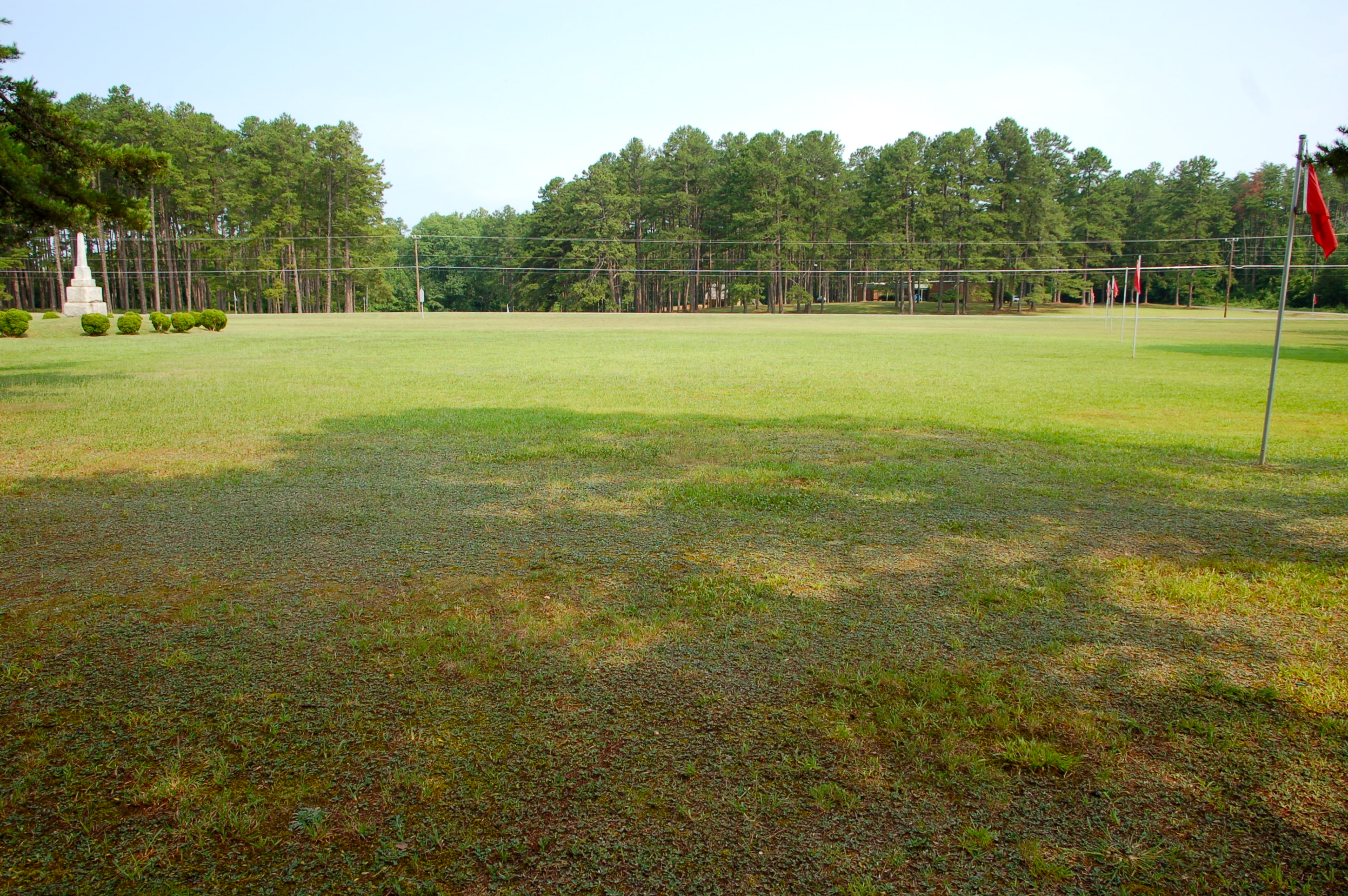 This is the site of the Battle of Alamance which occurred on May, 16, 1771. Some 2,000 armed citizens stood up against more than 1,000 militia under the command of Governor Tryon in protest of unfair regulations and corruption of government. More than three hours of toe to toe fighting took place with Governor Tryon's troops holding the field. Seven Regulators were taken in to custody to Hillsborough, North Carolina, where they were hanged for public viewing. Today this hallowed ground is a North Carolina State Historic Site with a Visitor Center and interpretive markers which depict the events of the battle, monuments dedicated to the early American patriots, and the Allen Home, which depicts Colonial life in Piedmont North Carolina. Alamance Battleground.